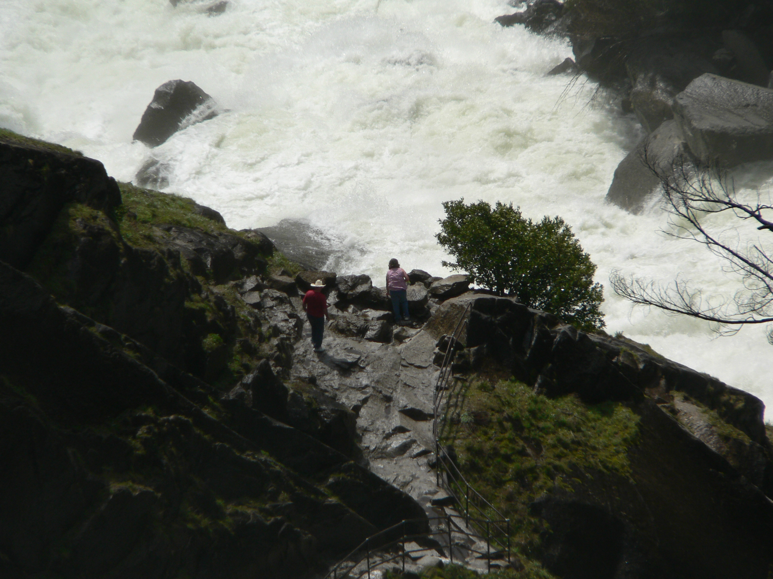 Mist Trail and hikers above the Merced River